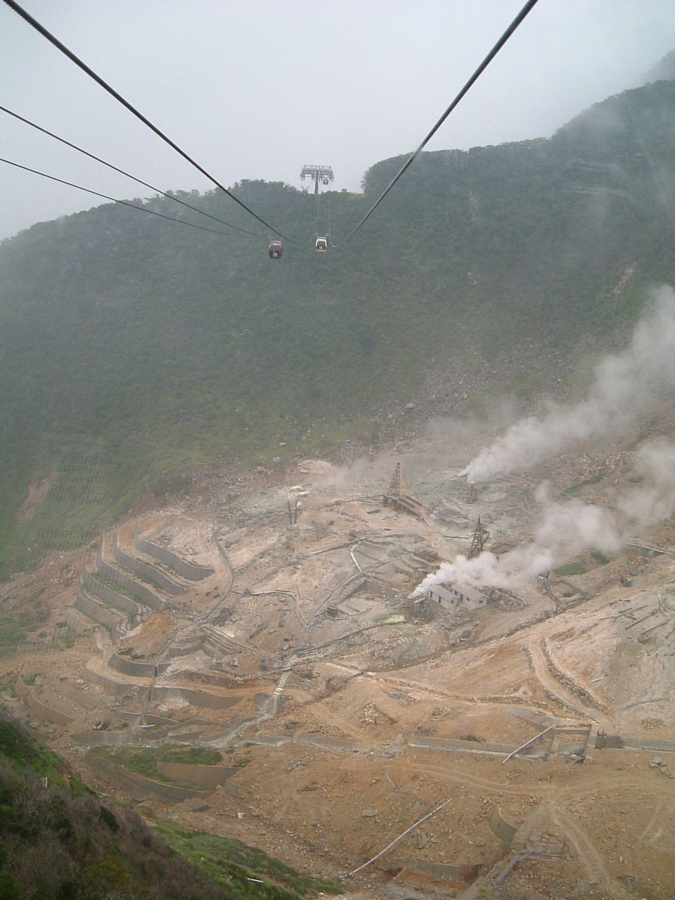 Owakudani seen from Hakone Ropeway in Kanagagawa Prefecture, Japan.